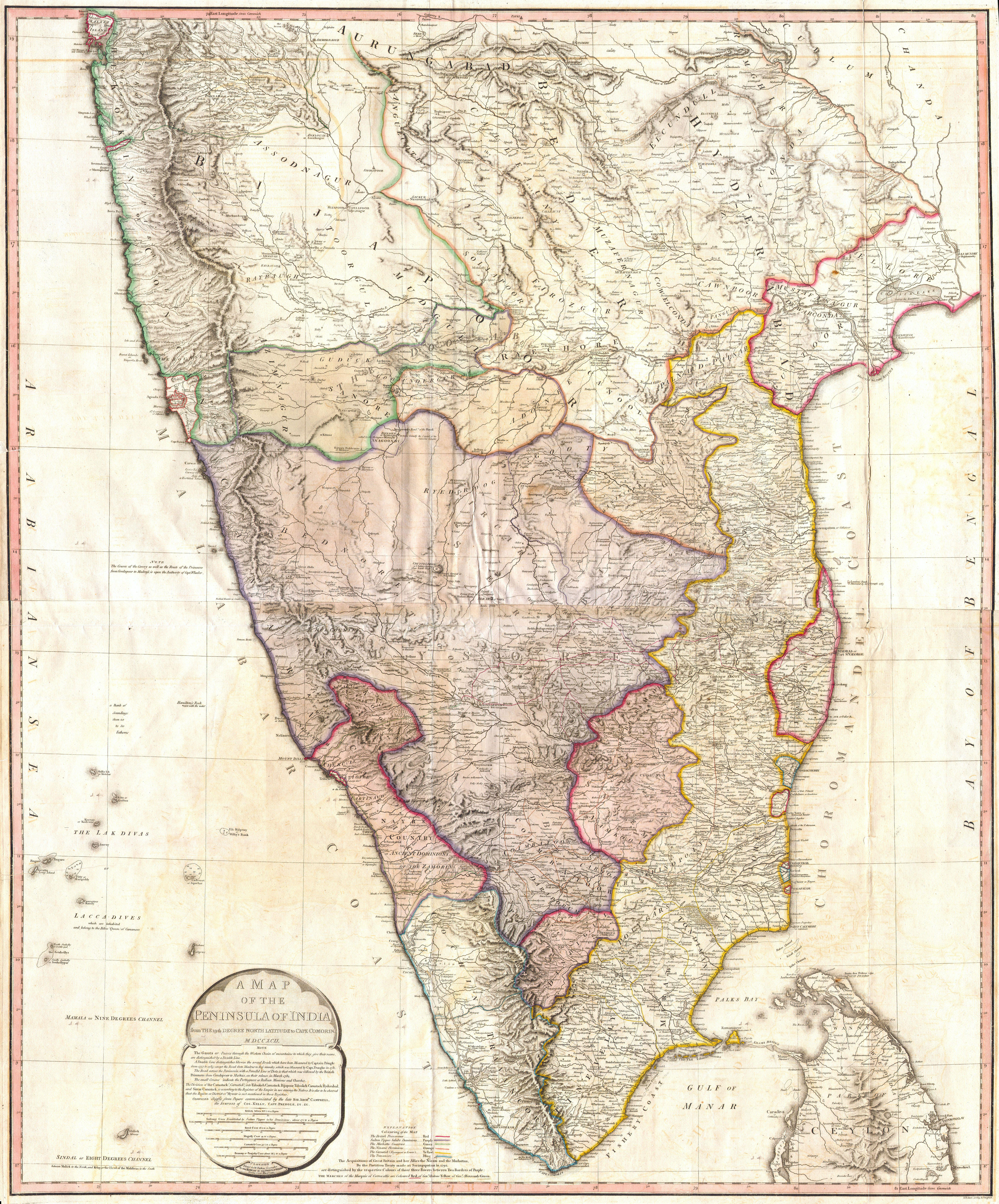 This map, created immediately after the Third Anglo-Mysore War (1789-92), shows the division of and territorial loss by the Kingdom of Mysore through the 1792 Treaty of Seringapatam. A "third edition" was created in 1800 showing the territorial changes after the Fourth Anglo-Mysore War (1798–1799). Description from Geographicus: One of the largest and most impressive maps of India to appear in the 18th century. Depicts the subcontinent from Bombay ( Mumbai ) and Aurungabad, south including the northern half of Sri Lanka ( Ceylon ). Printed in 1793 in London by William Faden, “Royal Geographer to the King and to the Prince of Wales”. Includes the routes of various military marches and campaigns including the 1784 March of British Prisoners from Condapoor to Madras, the march of the Marquis of Cornwallis, the march of General Medows, and the march of General Abercromby. Also shows the acquisitions of the British through the Partition Treaty of 1792. The whole is masterfully presented in visually stunning almost three dimensional detail and stunning period color. A must for any serious collection of south Asia maps. Compiled chiefly from papers communicated by the late Sir Archd. Campbell, the surveys of Col. Kelly, Capt. Pringle, Capt. Allan, etc.